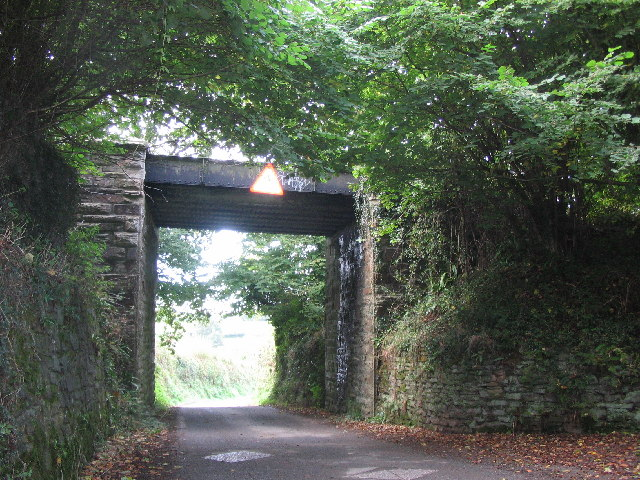 Bodmin & Wenford Railway. This simple girder bridge carries the Bodmin & Wenford Railway over a minor road at St Lawrence, on its way to the current terminus at Boscarne Junction.